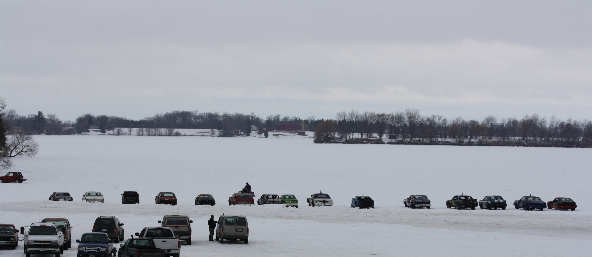 A land-rush type of standing start at an stock car ice racing event at Lake Sinissippi near Hustisford, Wisconsin.